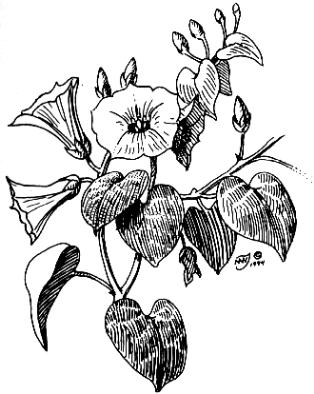 Ololiuhqui, Rivea corymbosa illustration. Originally labeled Turbina corymbosa